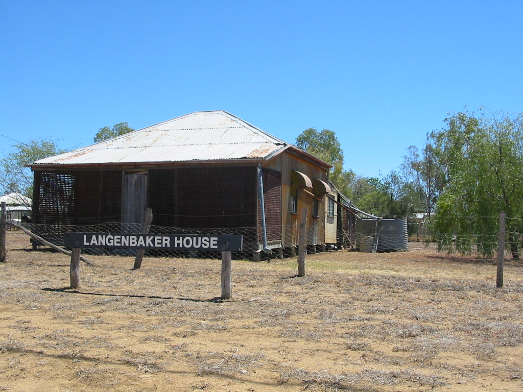 Langenbaker House, Ilfracrombe, 2003